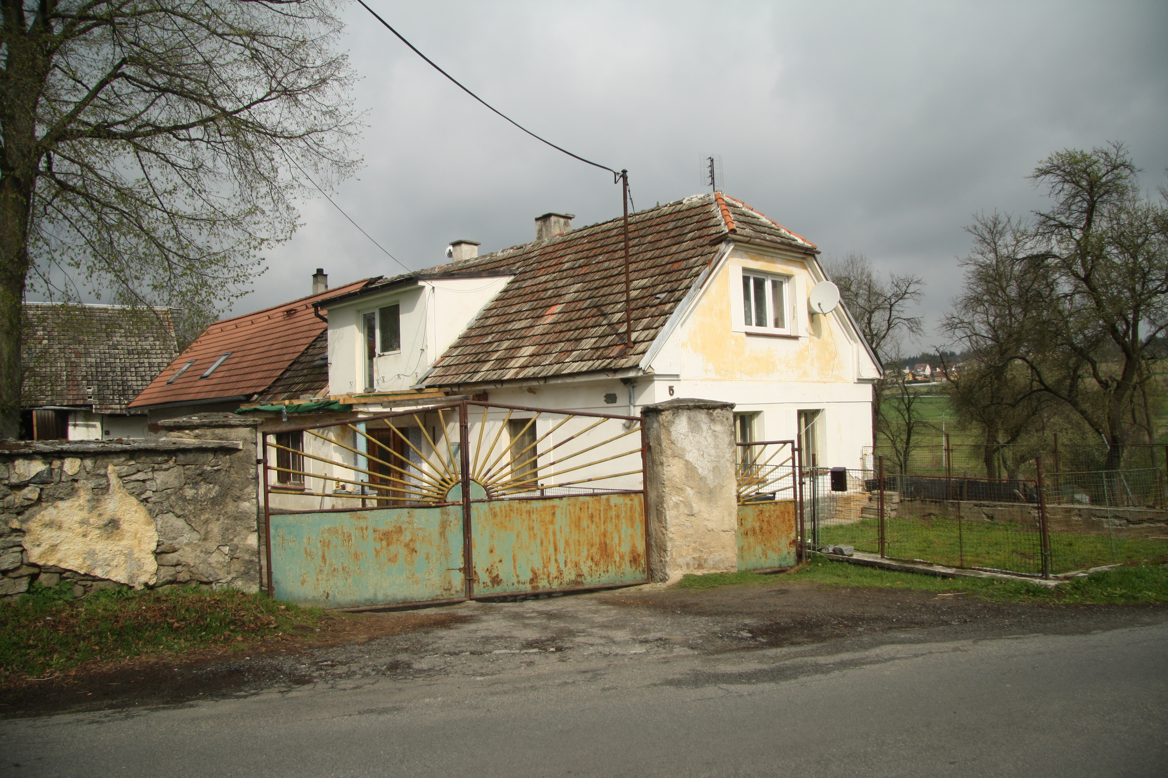 Old building in Mladice, Zavlekov, Klatovy District.